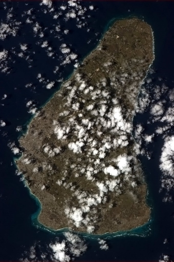 "Barbados. Bridgetown harbor is where I first learned to SCUBA dive. Who knew it would lead to walking in space?" Caption by astronaut Chris Hadfield on board the International Space Station.